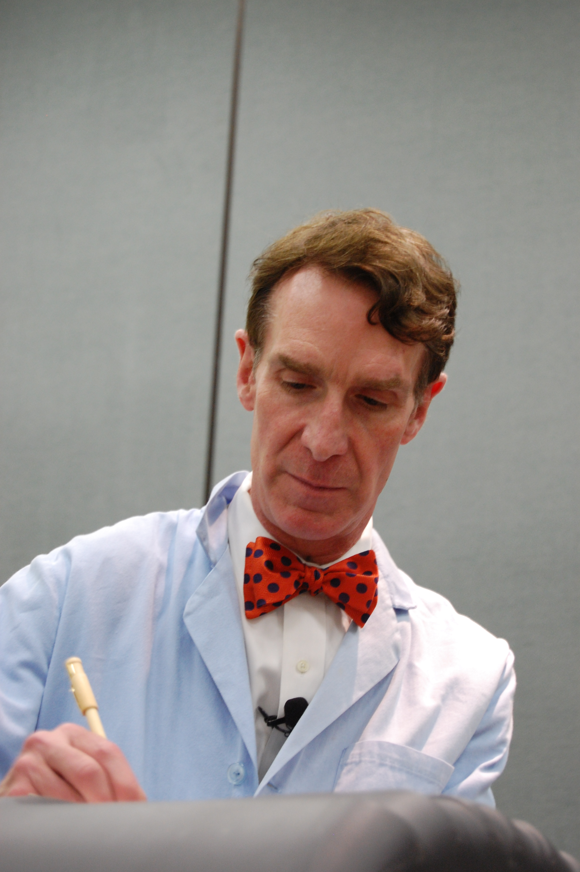 Bill Nye was at the show, doing some of his fun experiments with the audience to explain the Water Ionizer, which adds an electric charge to regular tap water to make it a sanitizing product that's strong enough to get out crayon marks.